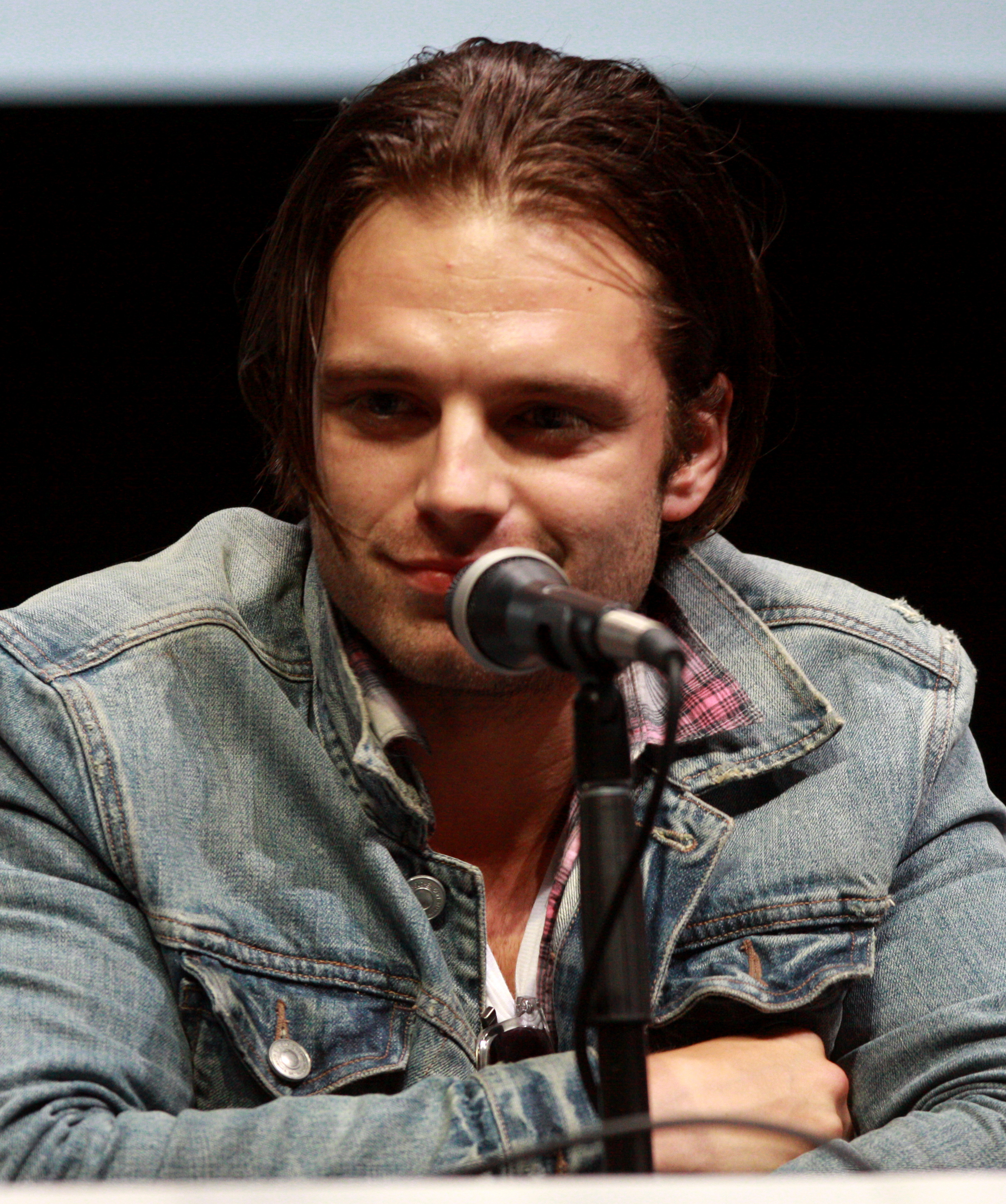 Sebastian Stan at the 2013 San Diego Comic Con International in San Diego, California.